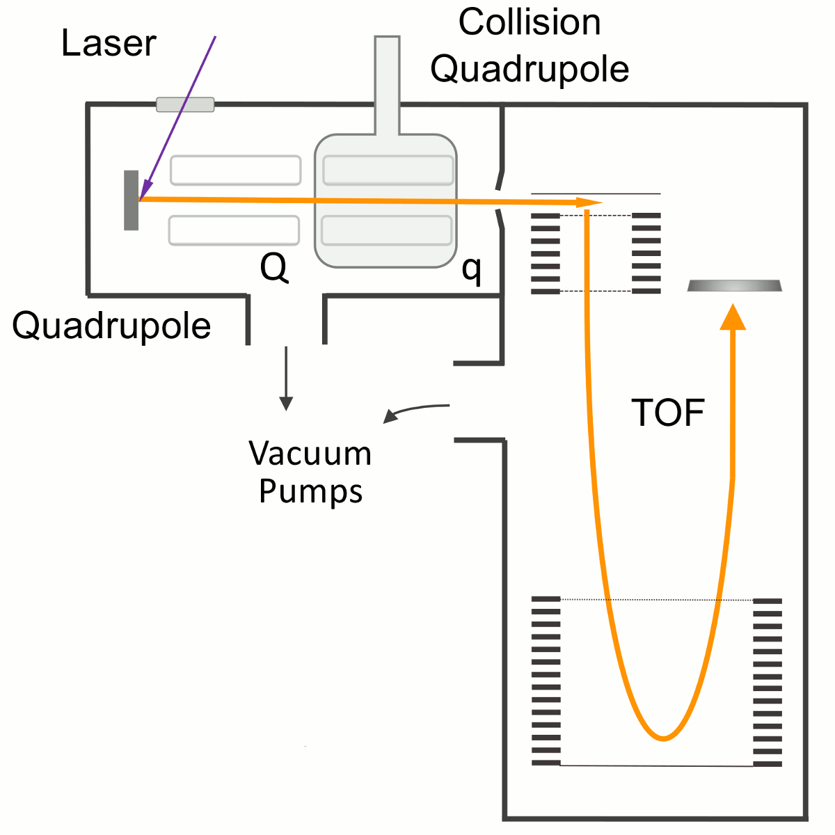 Schematic of a hybrid quadrupole time of mass spectrometer (QTOF) similar to that described in